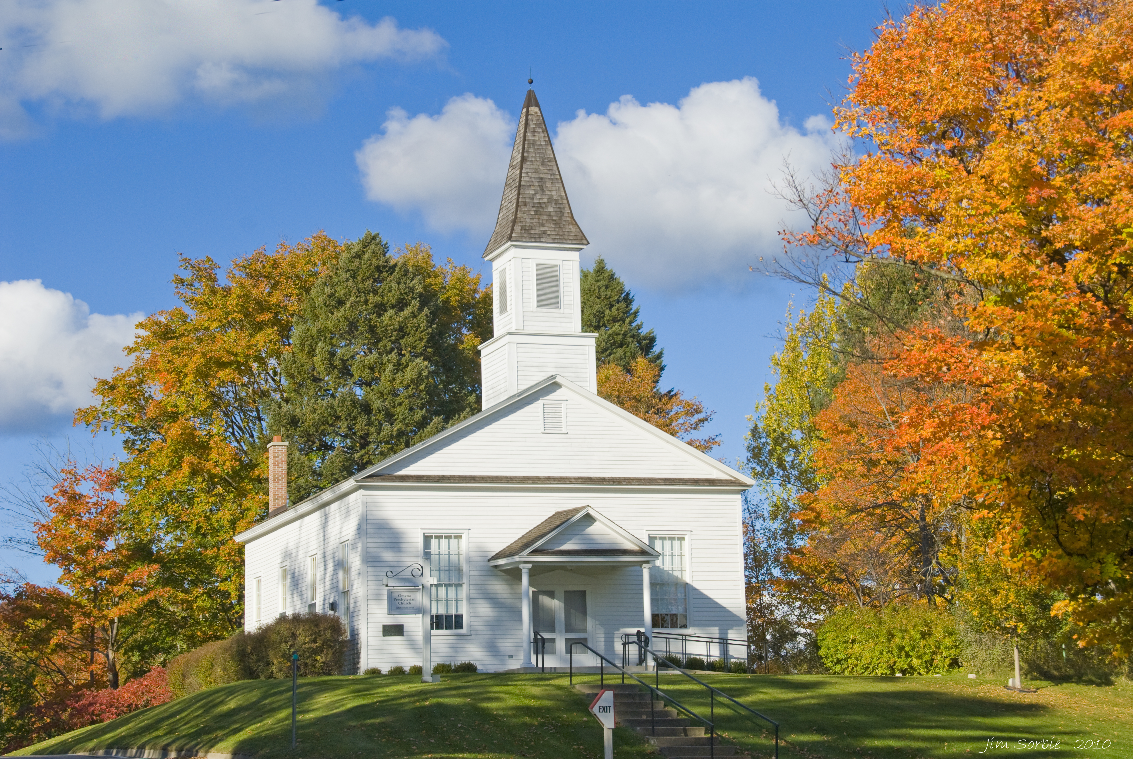 Presbyterian Church in Omena, Michigan, USA